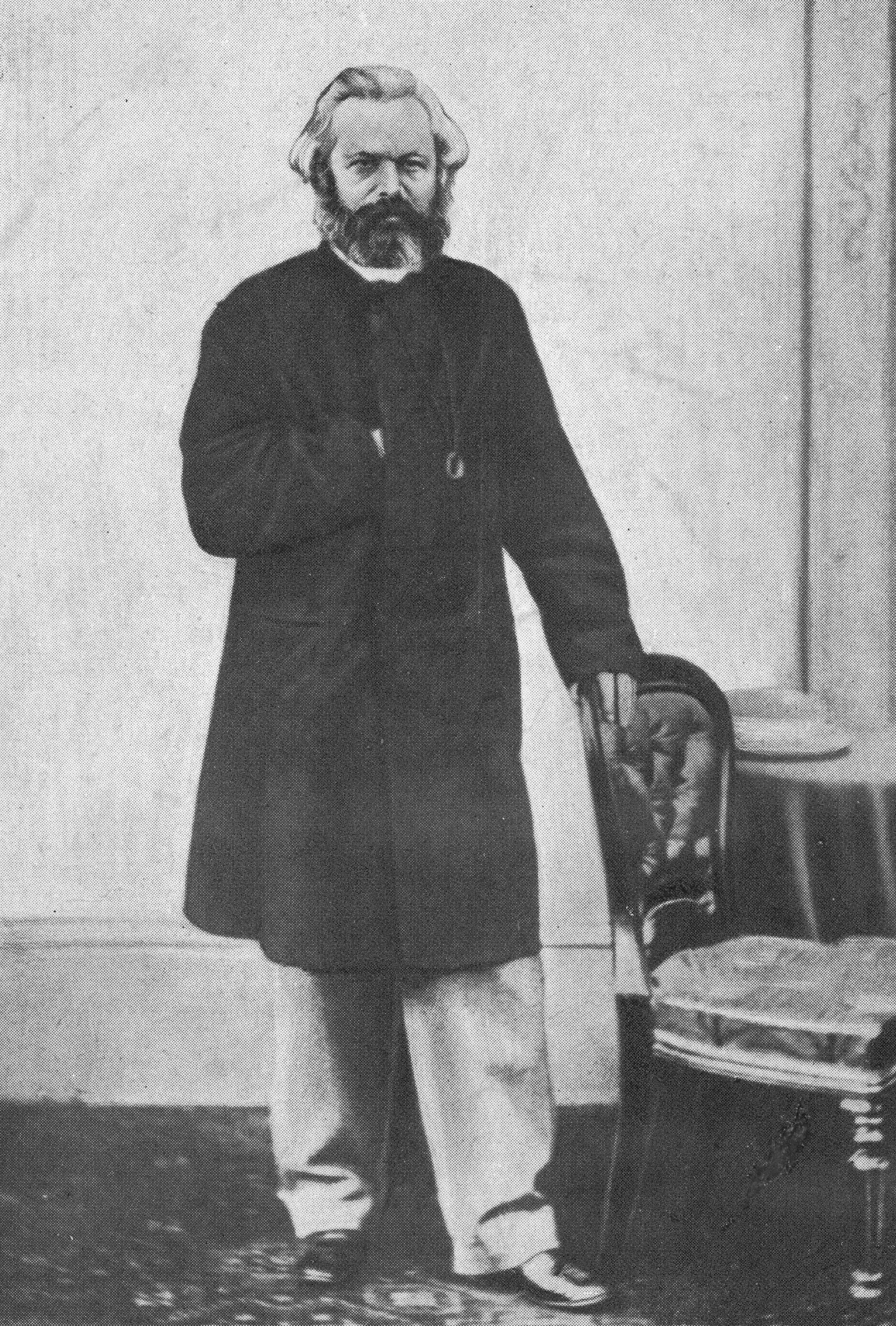 Photographic portrait of Karl Marx.